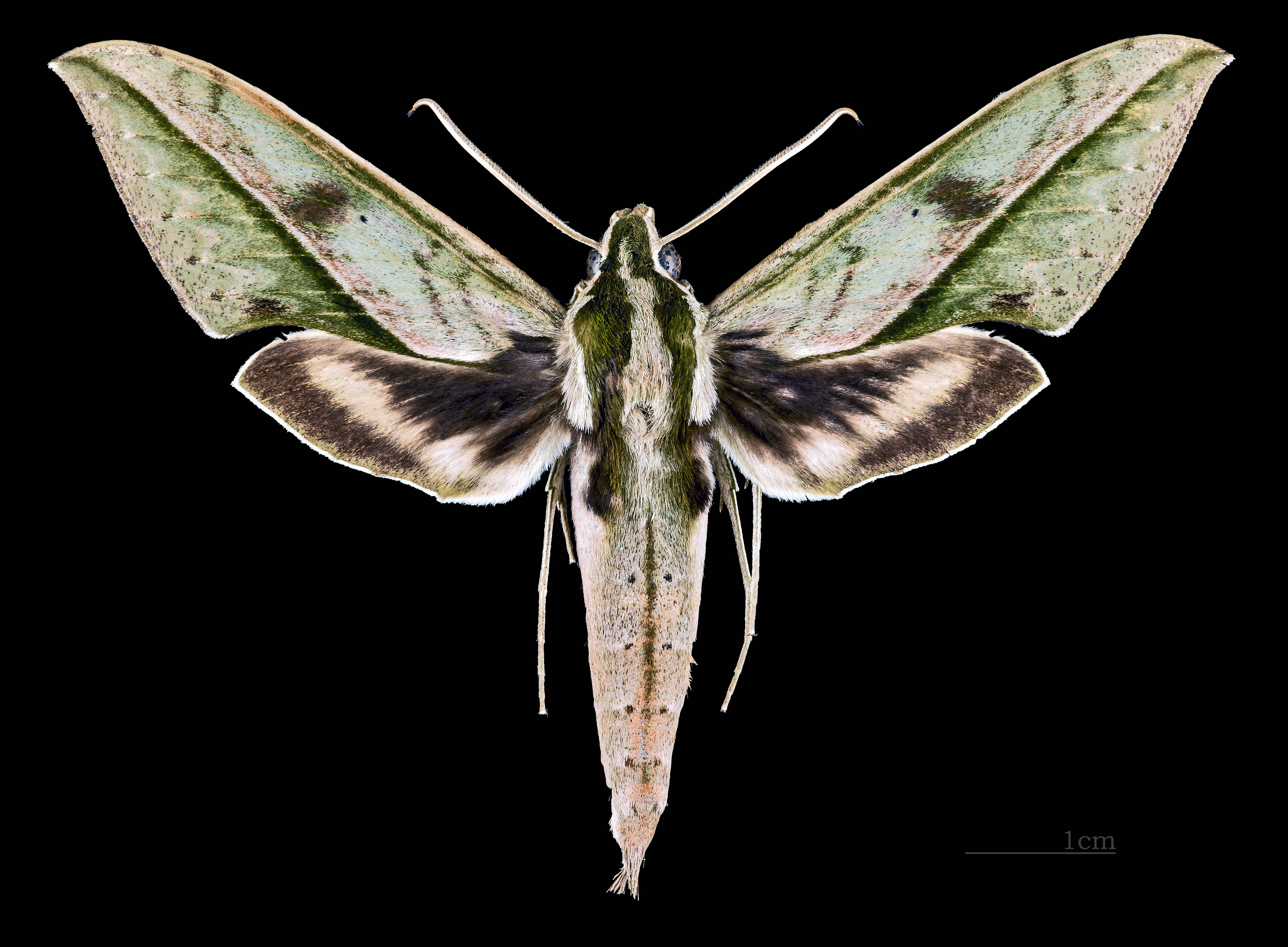 Xylophanes docilis- Dorsal side